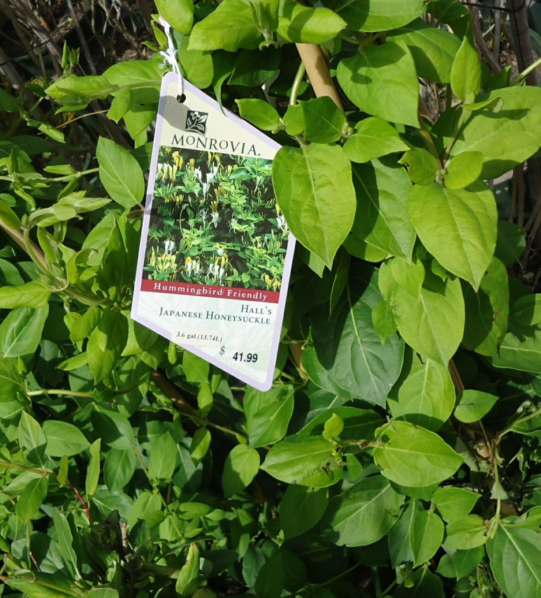 Japanese Honeysuckle plants in a nursery in Cranford, New Jersey on April 14, 2012 (correct date).